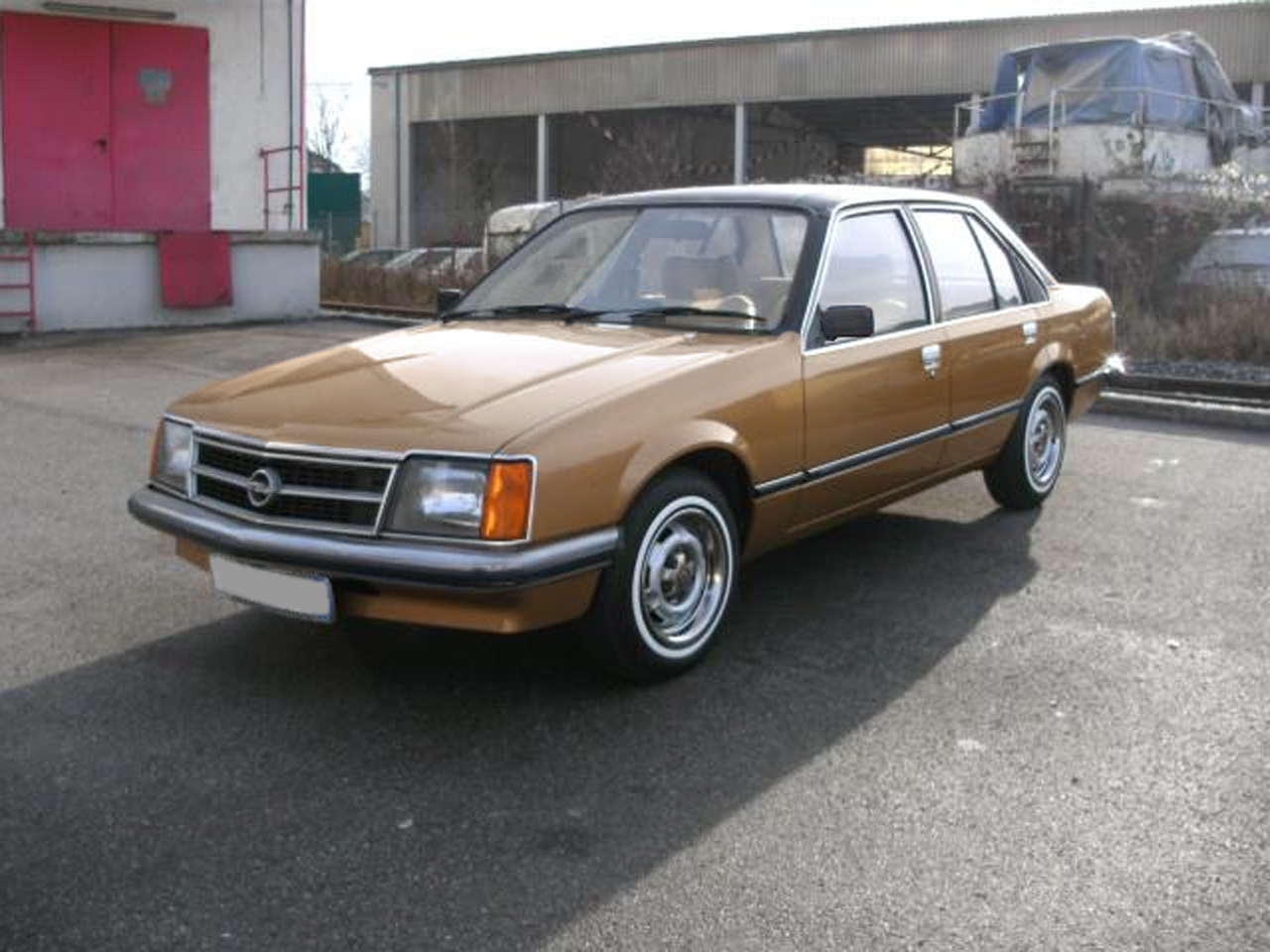 an Opel Salon